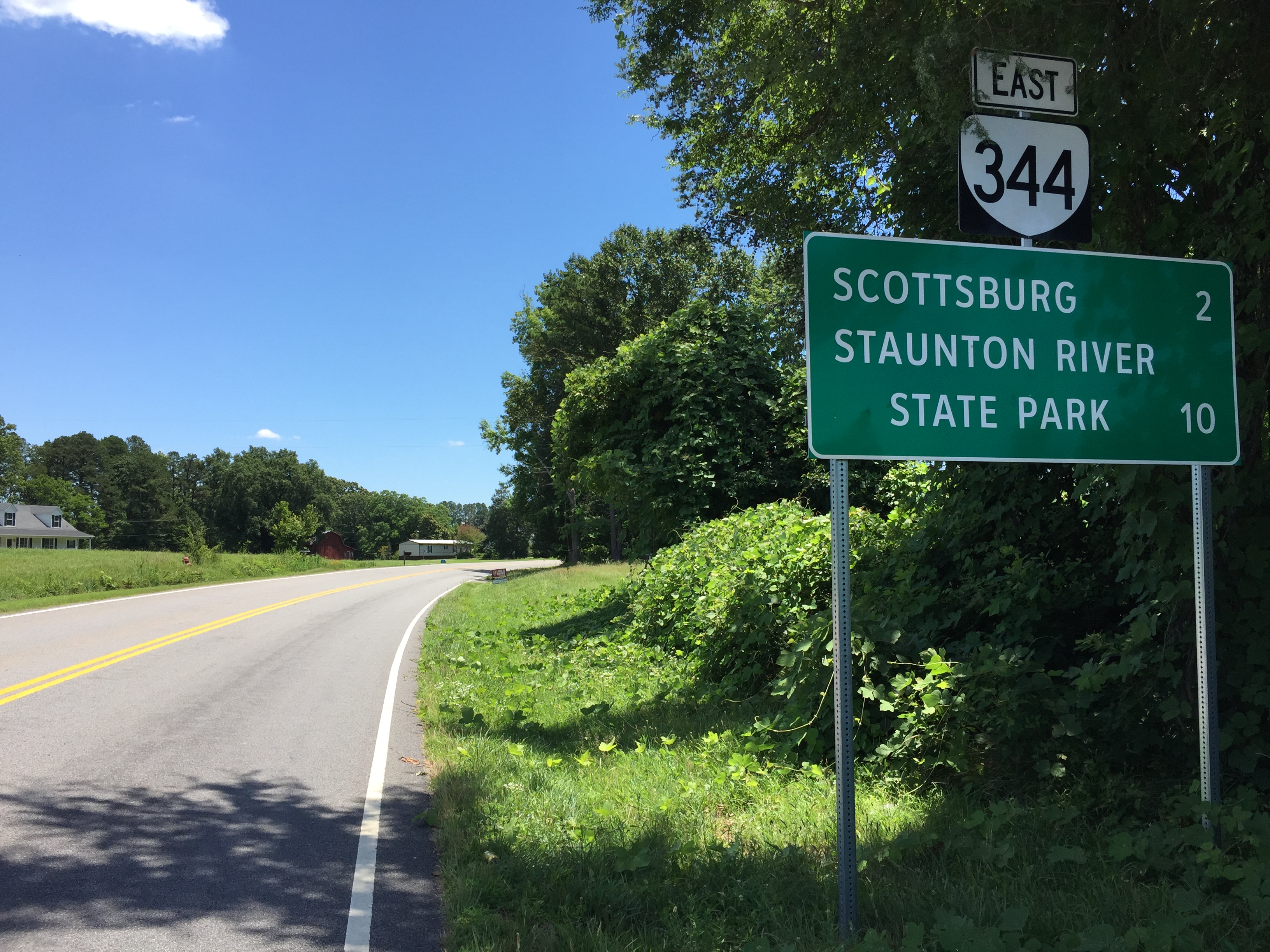 View east along Virginia State Route 344 (Scottsburg Road) just east of U.S. Route 360 (James D Hagood Highway) in Halifax County, Virginia